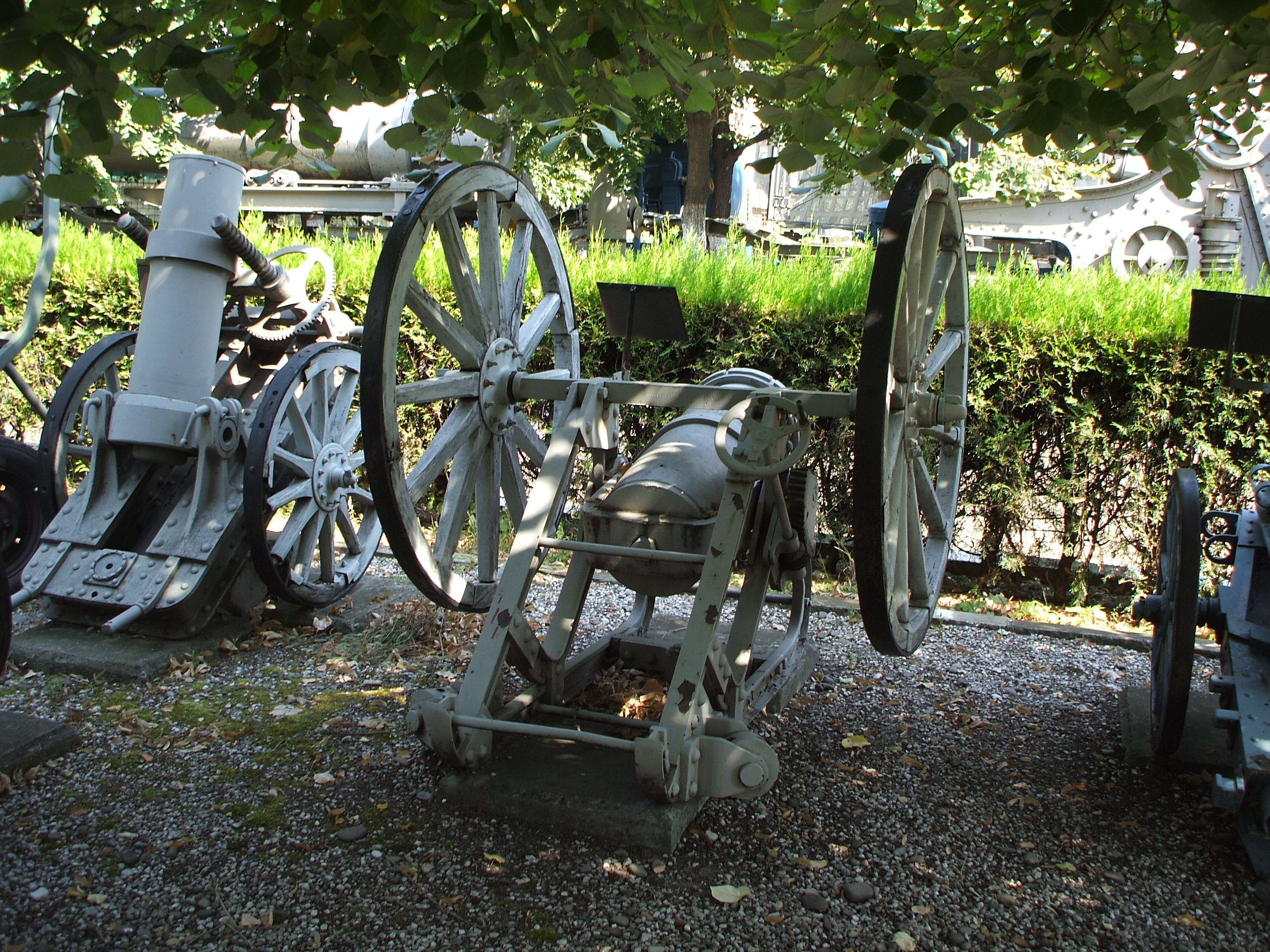 A 250 mm Negrei mortar (Model 1916), used in World War I.